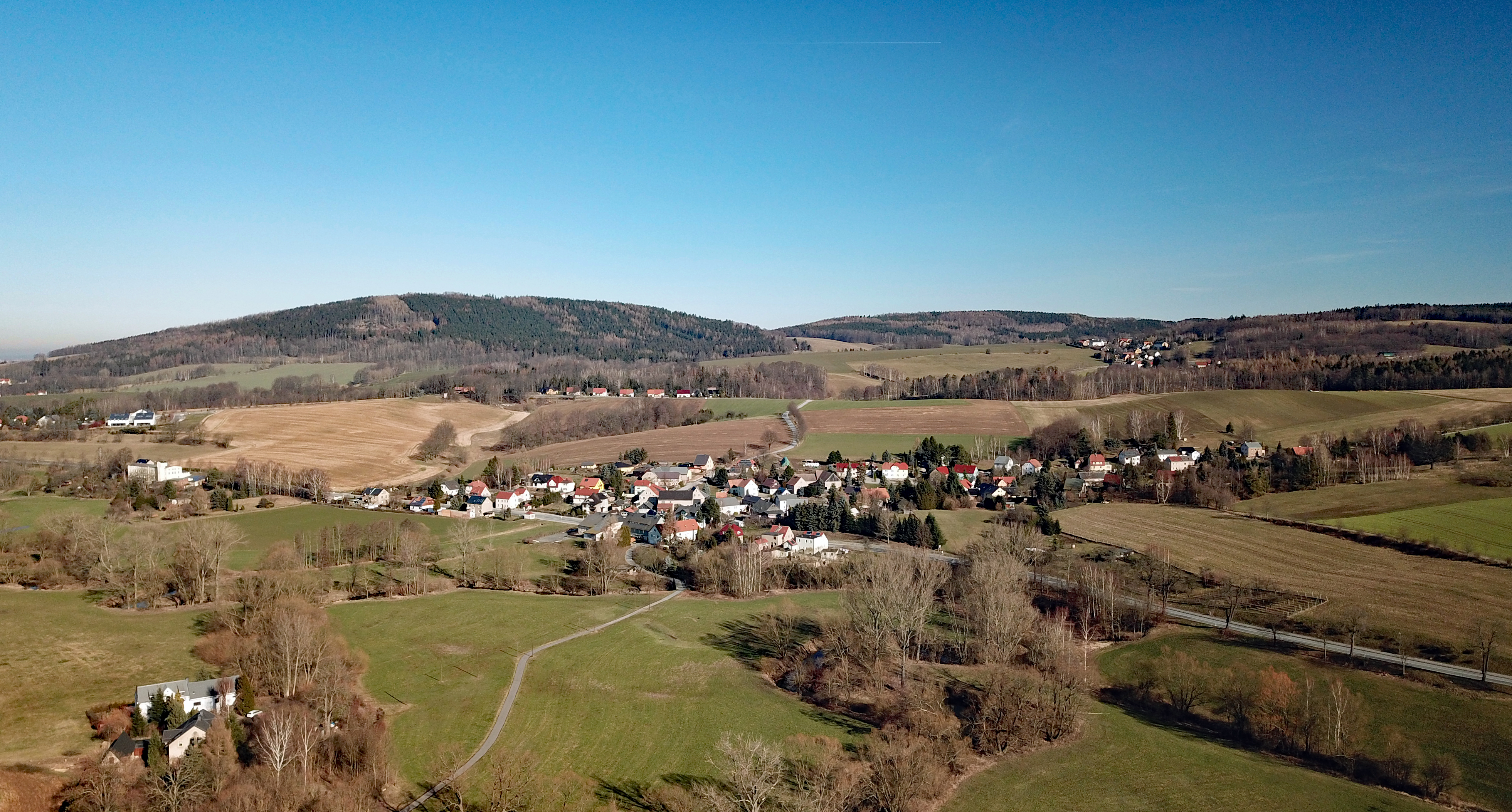 Eulowitz, Großpostwitz, Saxony, Germany Hornjoserbsce: Powětrowy wobraz Jiłoc